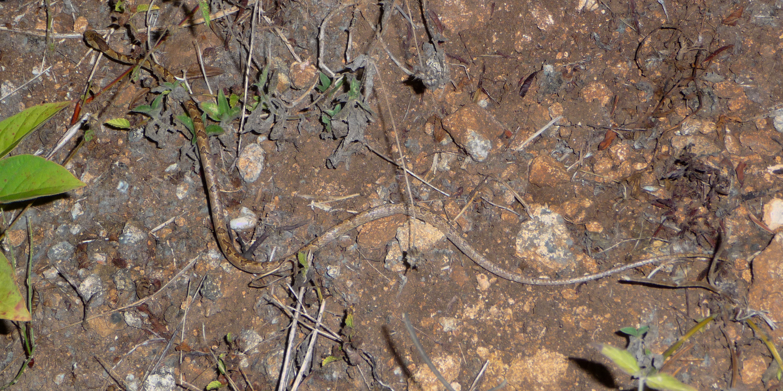 A Pygmy Snail Sucker (Sibon sanniola) in Belize.